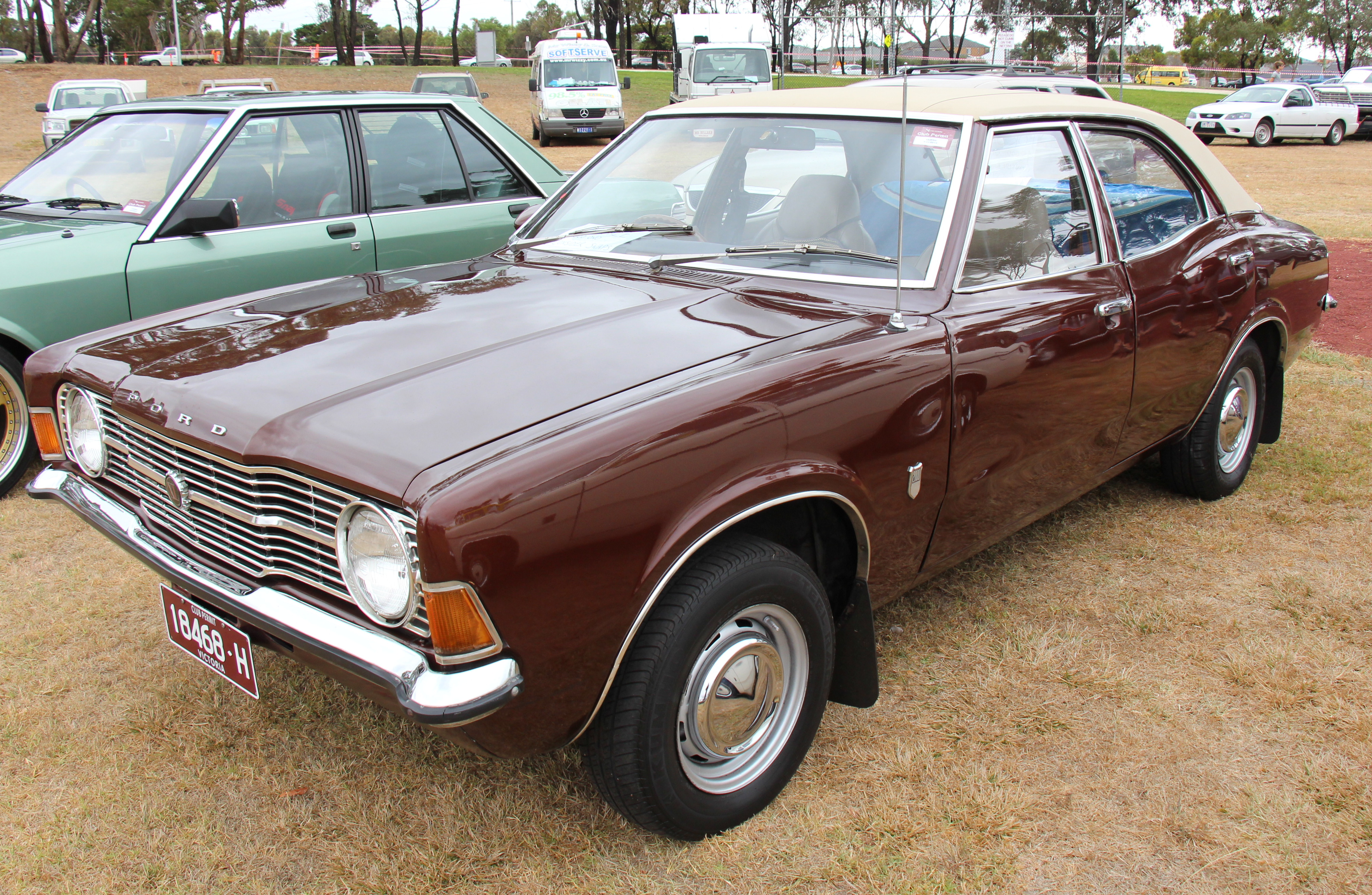 The Cortina got a new coke bottle shape in 1971, the Mk III, the 3rd generation. Not only built in England but in Australia too. In Australia the first of the Mk IIIs was known as the TC, with downward sloping dash and round headlights, the TC was built from 1971-73, In England it was available in L, XL, GT and GXL with 4 cyl engines. The Australian cars were available in L, XL and XLE, the single headlight cars gettting either 1600 or 2000 4 cyl and the twin headlight cars got the 200 or 250 cu in 6 cyl Falcon engines. Also available in South Africa with the Essex 2.5 and 3.0 V6 The later Mk III Cortina, the TD, from 1974 got a plastic grille, still round headlights, and the new flat dash. From 1976, all Australian Cortinas had rectangular headlights